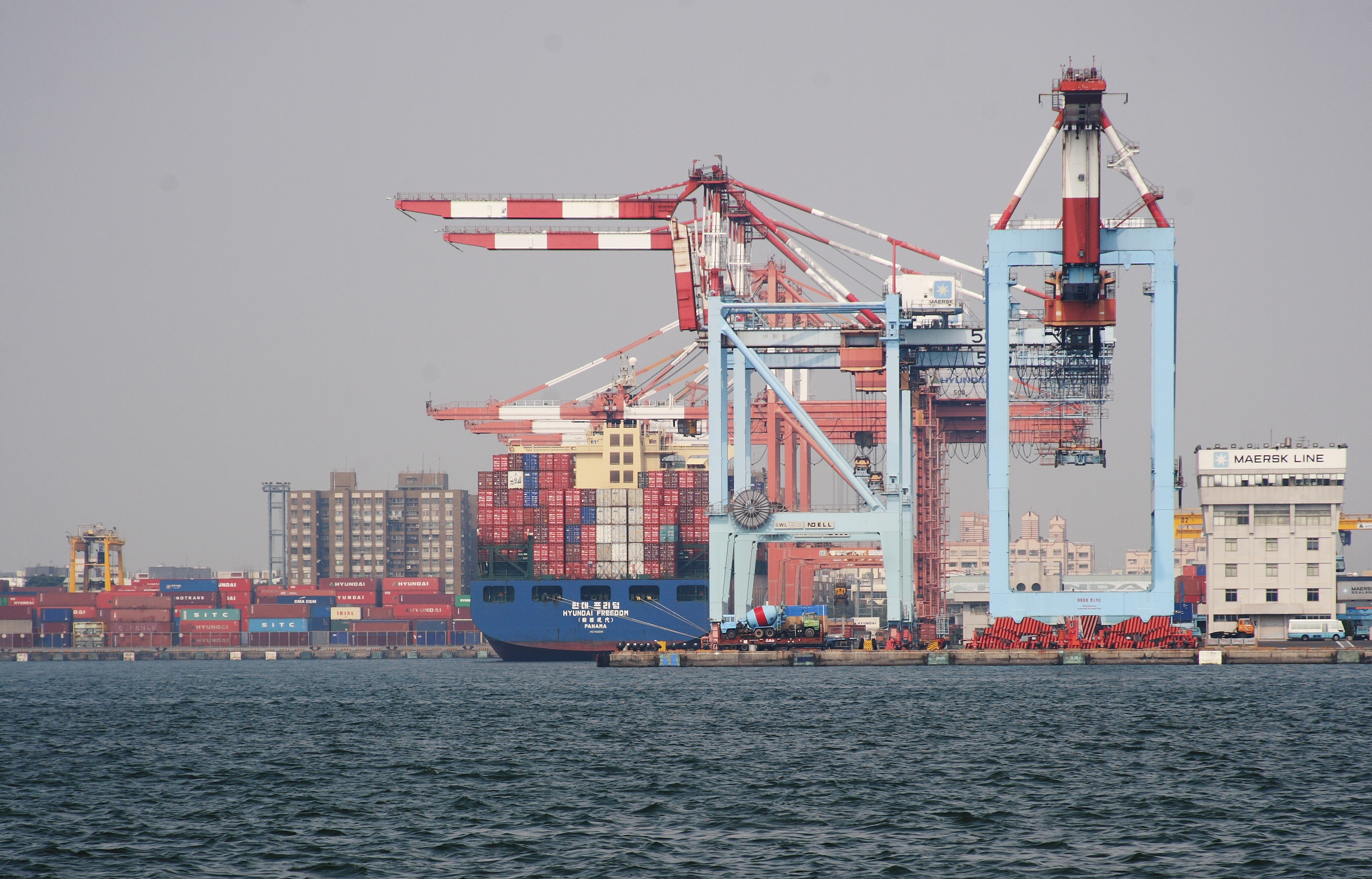 Container ship Hyundai Freedom, at the Port of Kaohsiung. 8IMO Number: 9112260